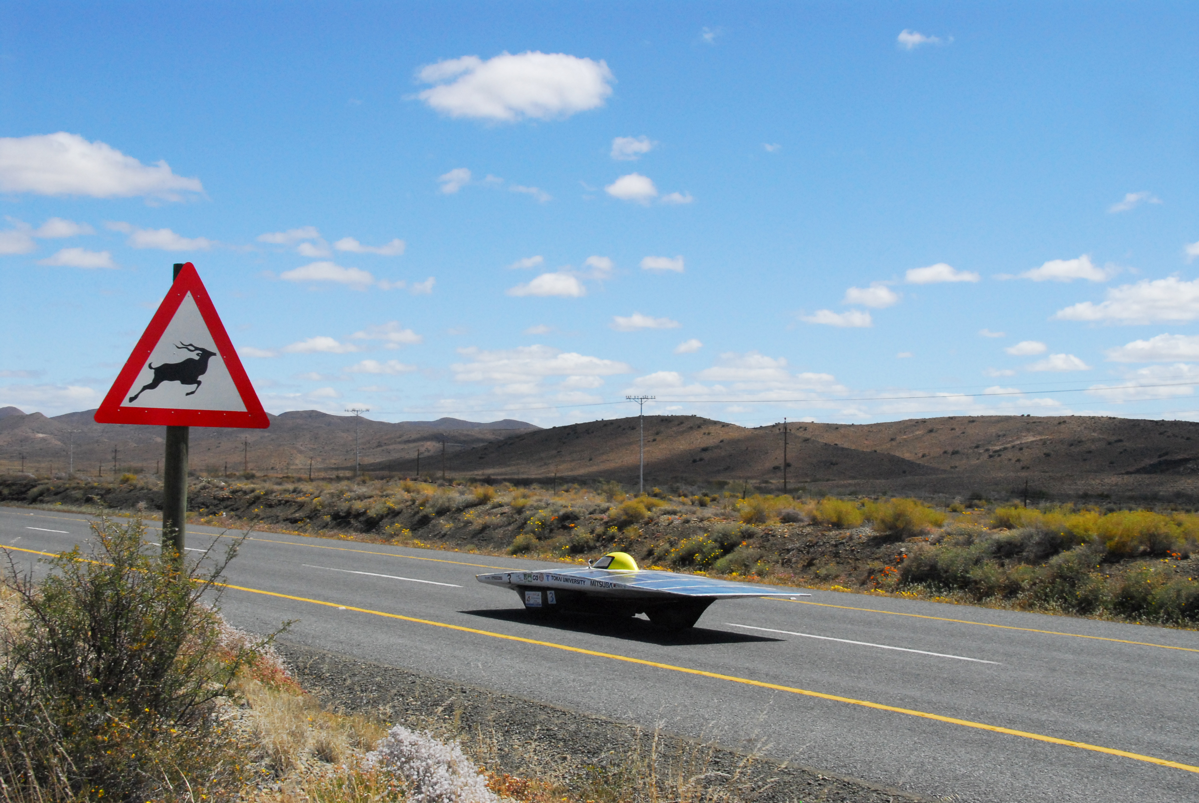 Tokai University's solar car "Tokai Falcon", the winner of the "South African Solar Challenge 2008". CAUTION KUDU!